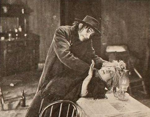 Still from the American film Dr. Jekyll and Mr. Hyde (1920) with Sheldon Lewis, page 3319 of the April 10, 1920 Motion Picture News.